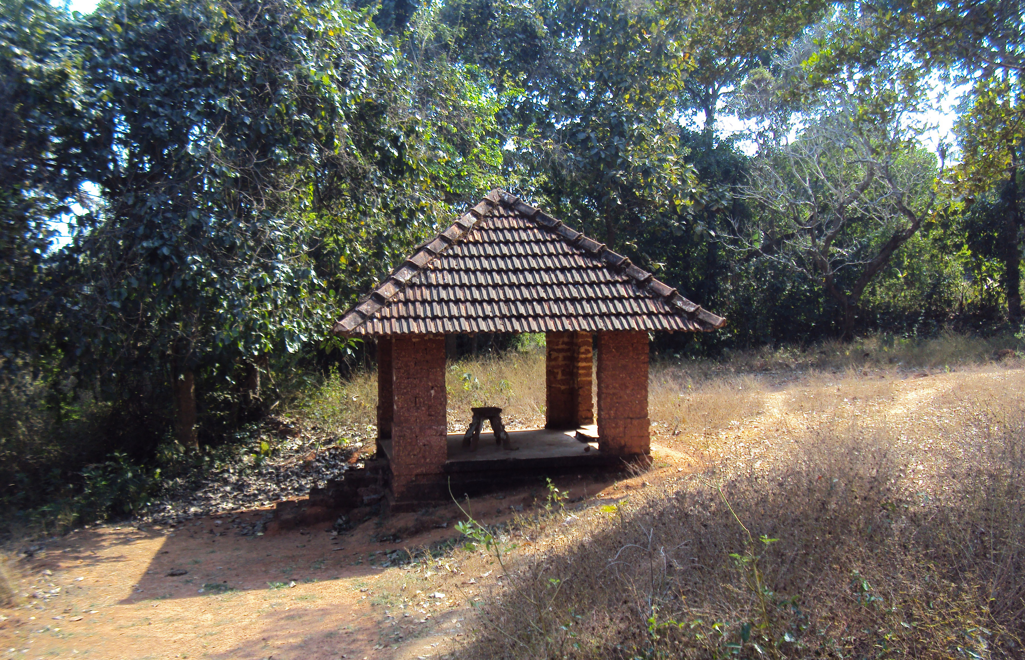 Arimbra - Kottam - Vettakkarumakan temple views